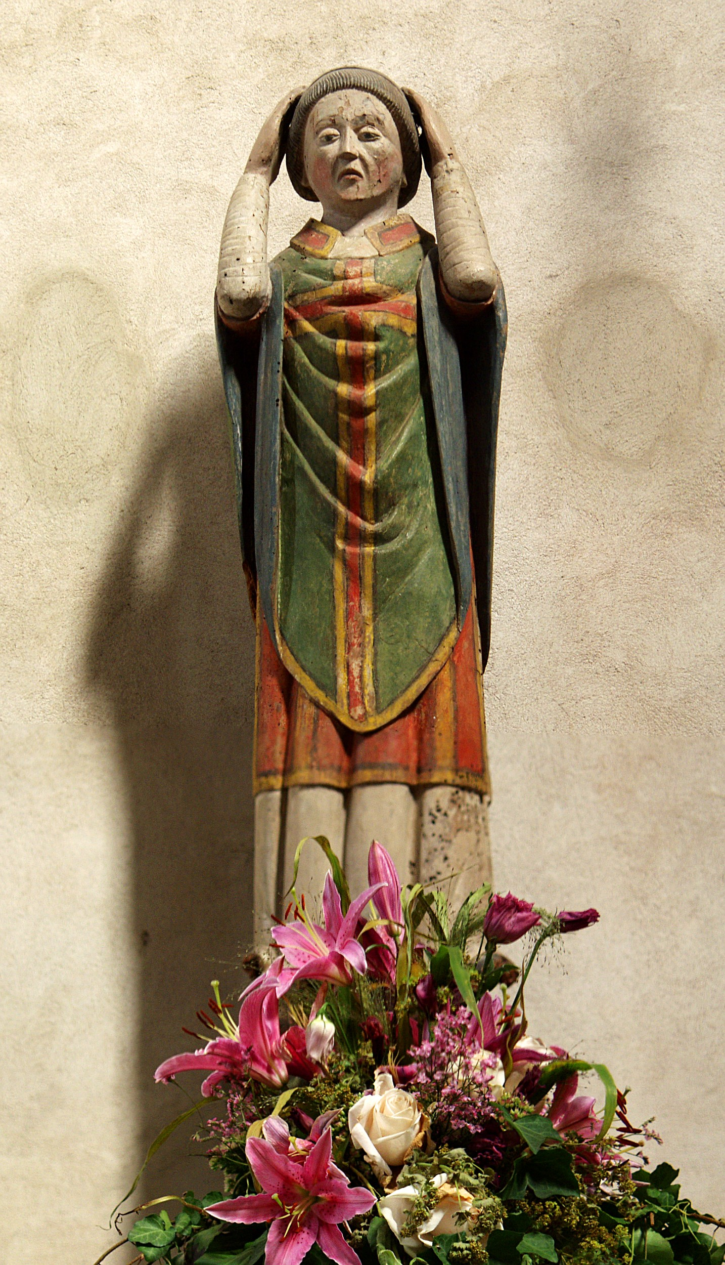 Statue of St. Eliphius (Élophe, Éliphe or Alophe) in the church Groß St. Martin, Cologne. Created in the middle of the 12th century or later